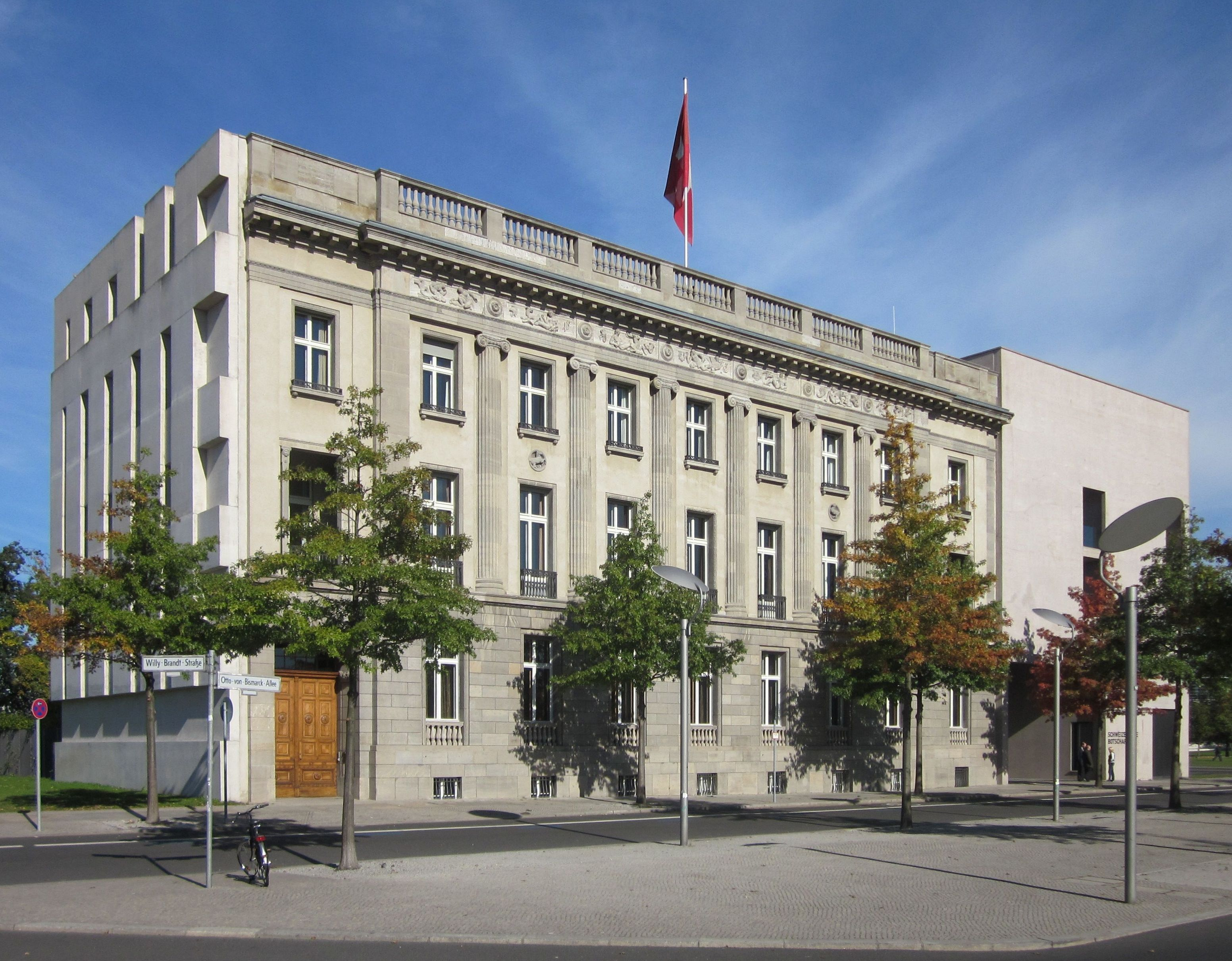 The Swiss Embassy at Otto-von-Bismarck-Allee No. 4 in Berlin-Tiergarten. Its historic part was constructed from 1870 to 1871 to a design by Friedrich Hitzig as a residential building; it was altered from 1910 to 1911 by Paul Baumgarten senior. The building served as Swiss Embassy since 1920. A modern annex was constructed to a design by the architects Diener & Diener from Basel from 1999 to 2001.